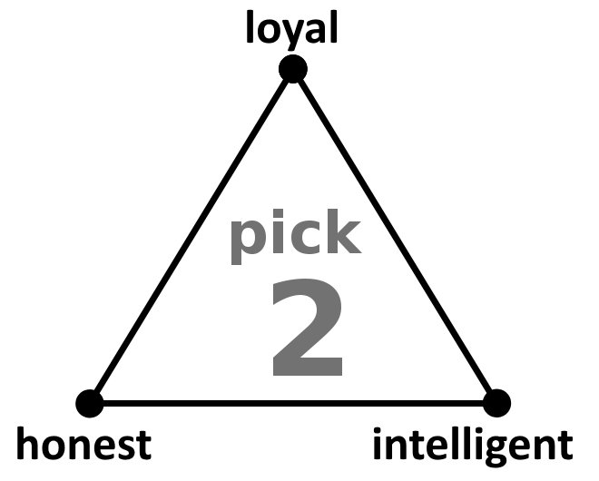 A diagram of the Zizek Trilemma that illustrates the impossibility of demonstrating loyal to the Communist regime while also being honest and intelligent.